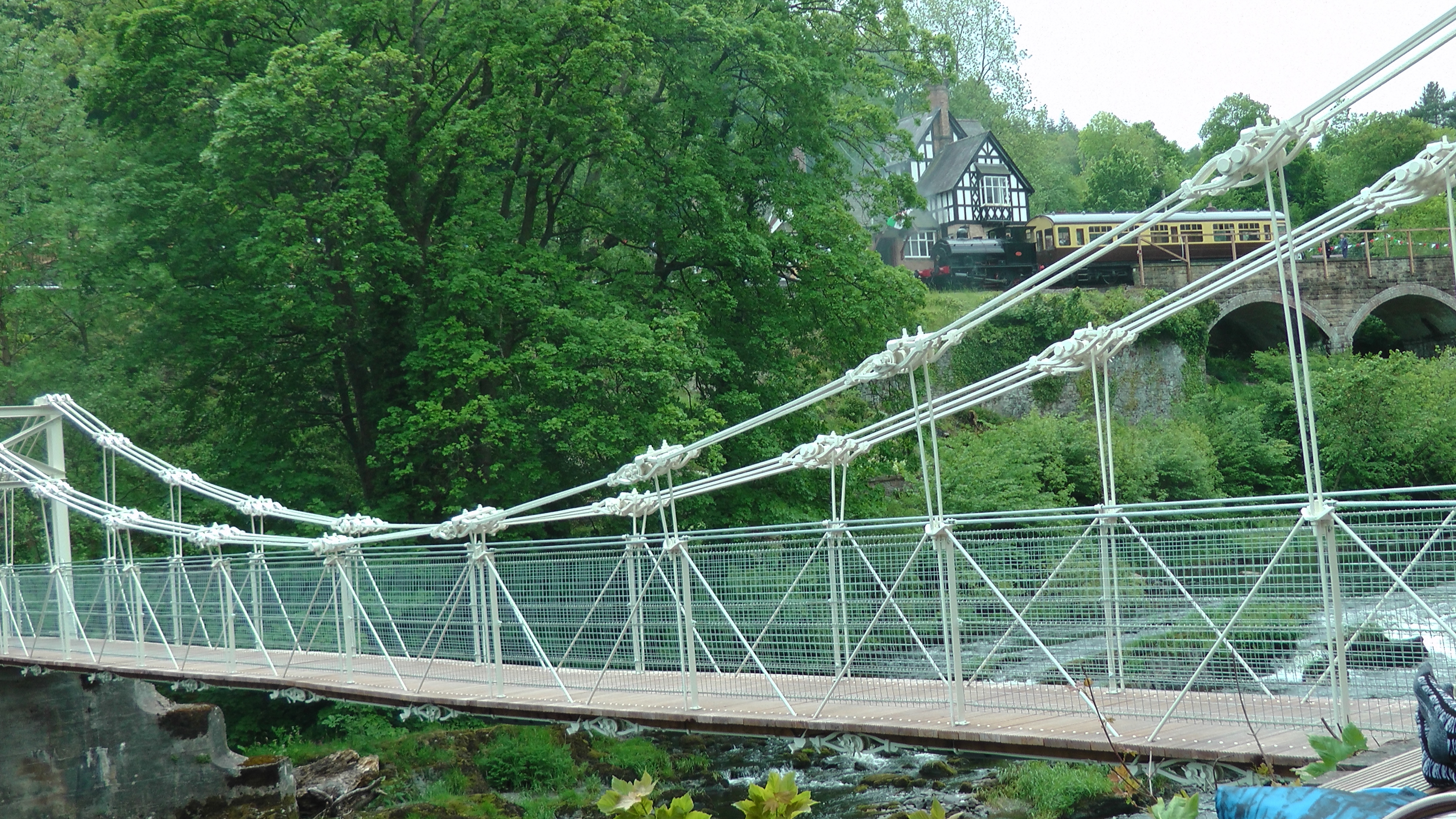 The Henry Beyer Robertson Chain Bridge and Berwyn Station. Beyer-Peacock (built 1879, Gorton Foundry, Manchester.)